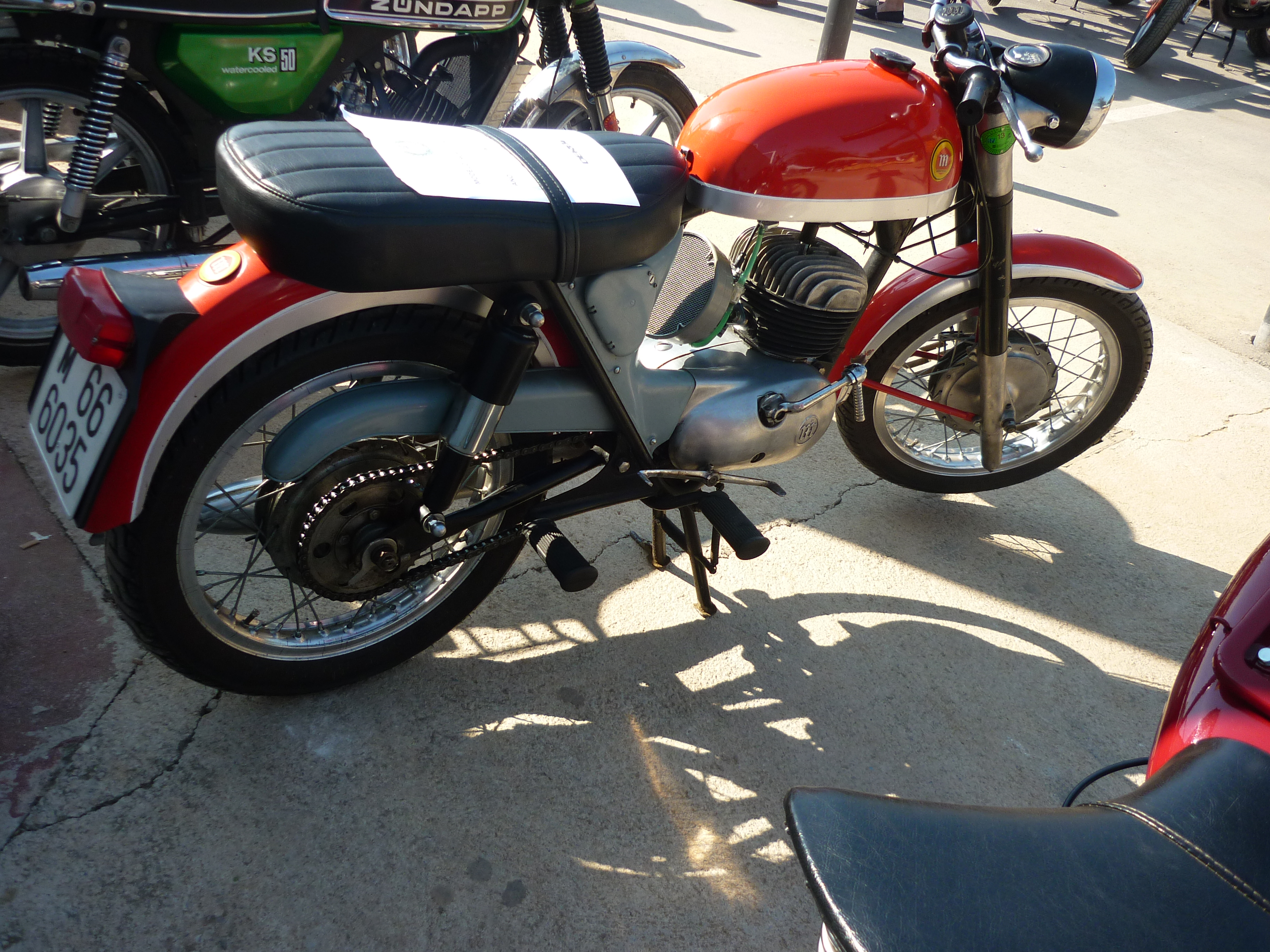 Montesa Impala Kenya 175cc (1968).Motorcycle meeting held on September 10, 2011 in Can Carrancà (near the Derbi factory in Martorelles, Catalonia).